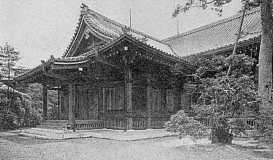 Junmeifu (Hall where various spoils of the World War I were collected)